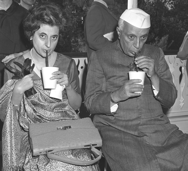 Title: Prime Minister Nehru and his daughter Mrs. Indira Gandhi touring Disneyland, 1961 Published caption: TIME FOR REFRESHMENTS-Prime Minister Nehru and his daughter, Mrs. Indira Gandhi, pause during whirlwind tour of Disneyland to sip some fruit juice. Publication: Los Angeles Times Publication date: Monday, November 13, 1961